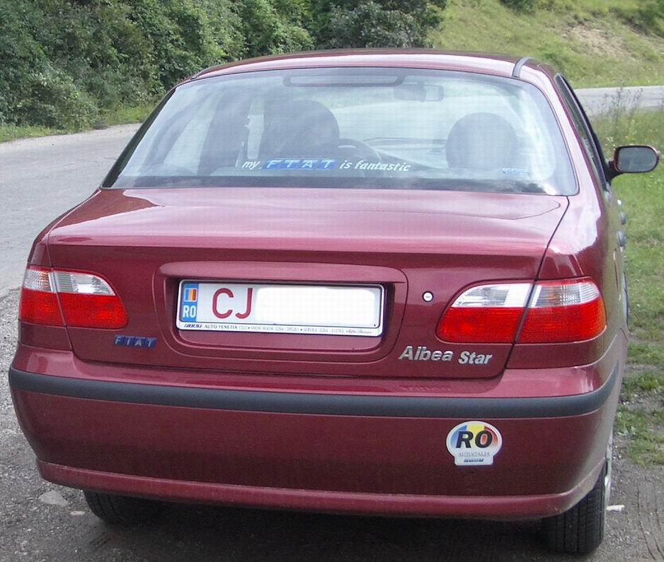 Fiat Albea Star. Photograph taken by Alexandru Rap, July 2005.